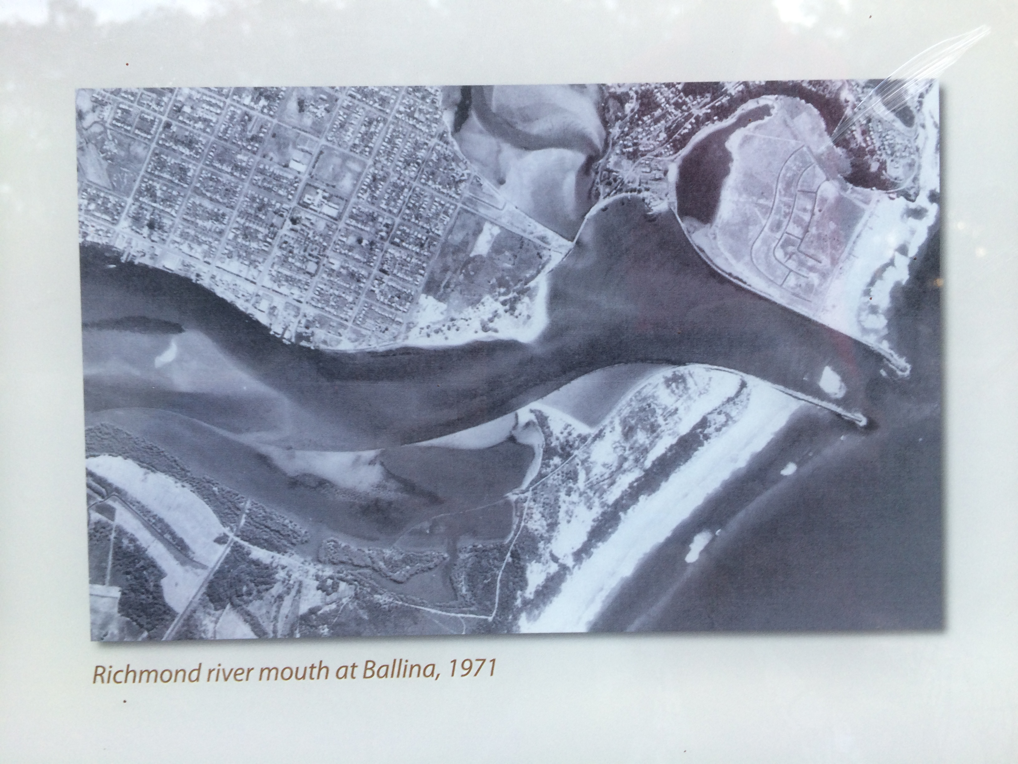 Richmond River 1971